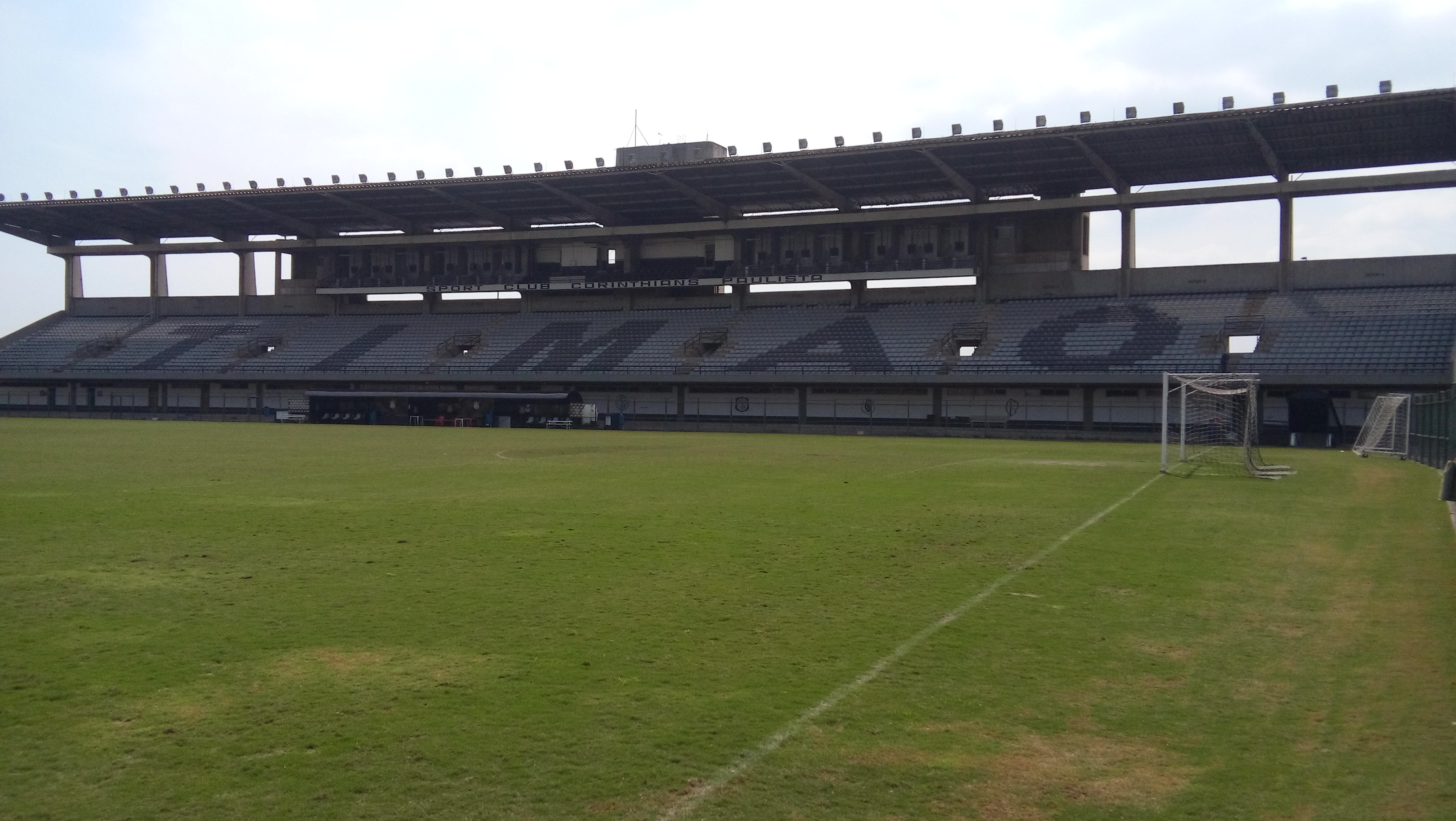 Estádio Parque São Jorge Corinthians in São Jorge in Sao Paulo Park